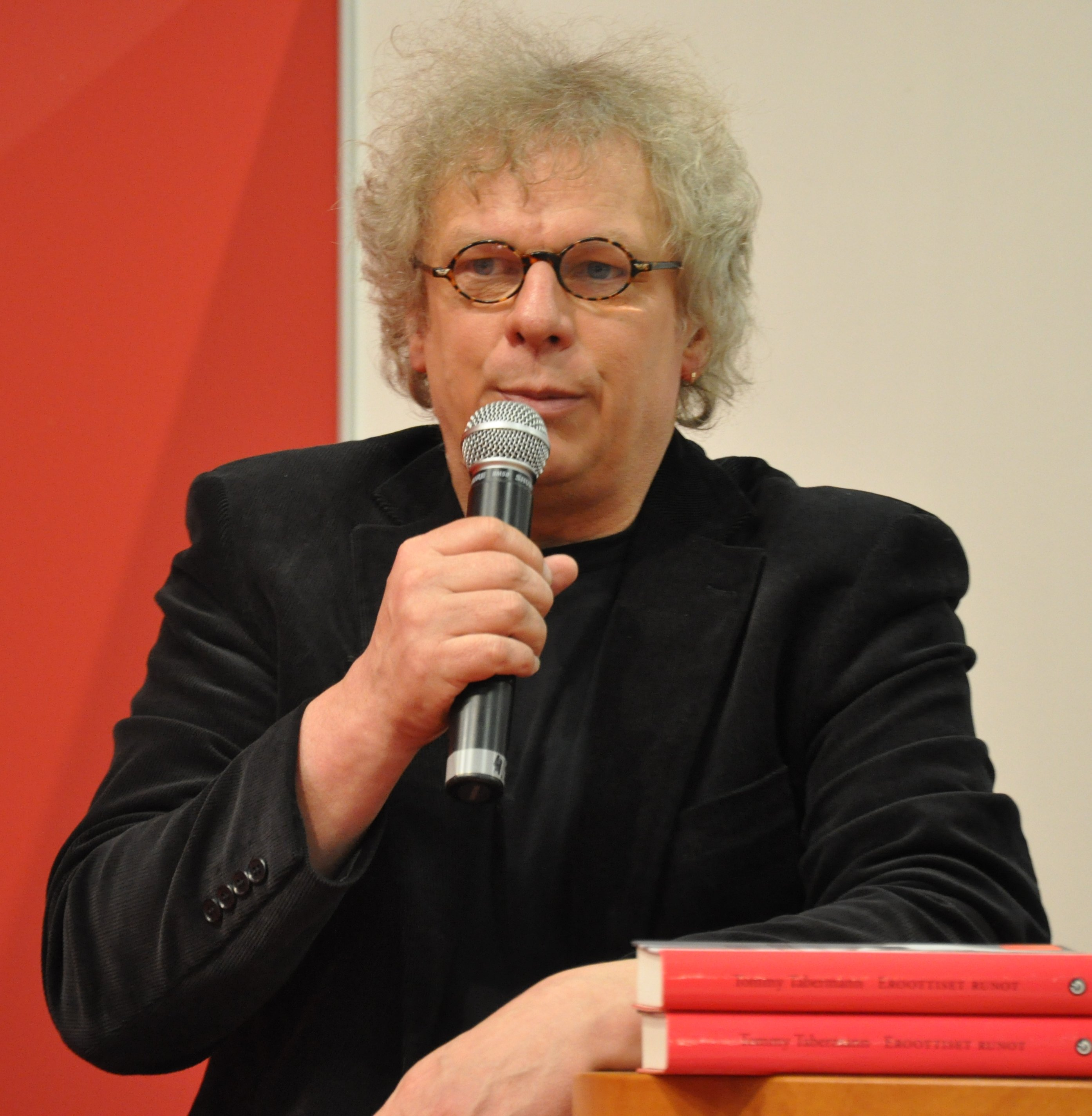 Finnish poet and Member of Parliament Tommy Tabermann speaking at the Jyväskylä Book Fair 2009.